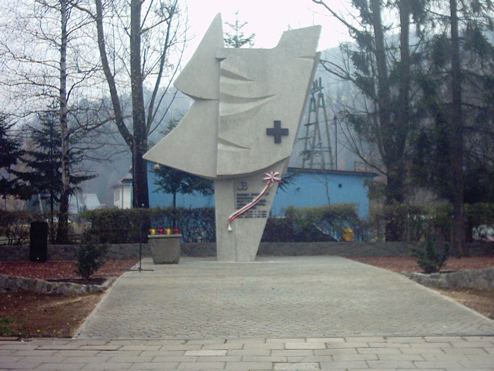 Monument in honor of the partisan division AK "Wędrowiec" (eng.The Wanderer) and the names of the commanders on it. Brenna 2005 (1)